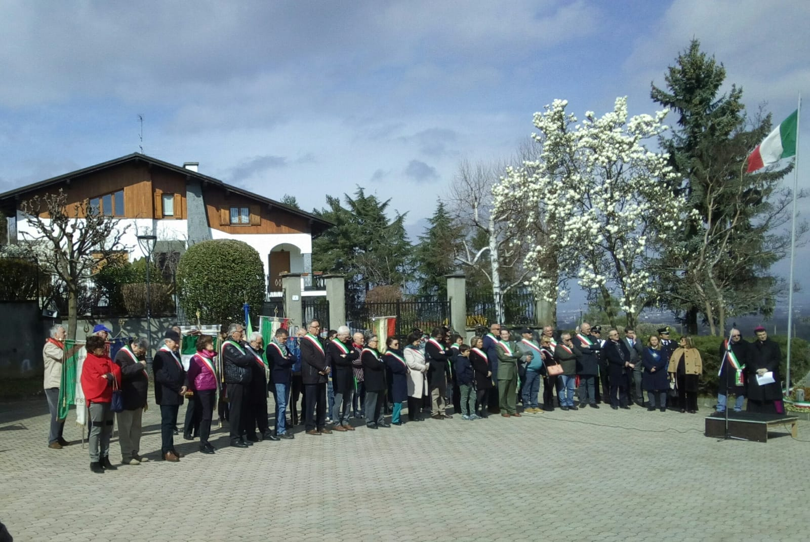 Commemoration of the 74th anniversary of the Salussola massacre, which occurred on 9 March 1945